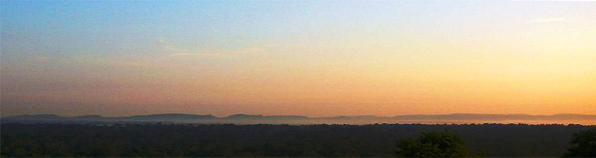 Dangrek Mountains